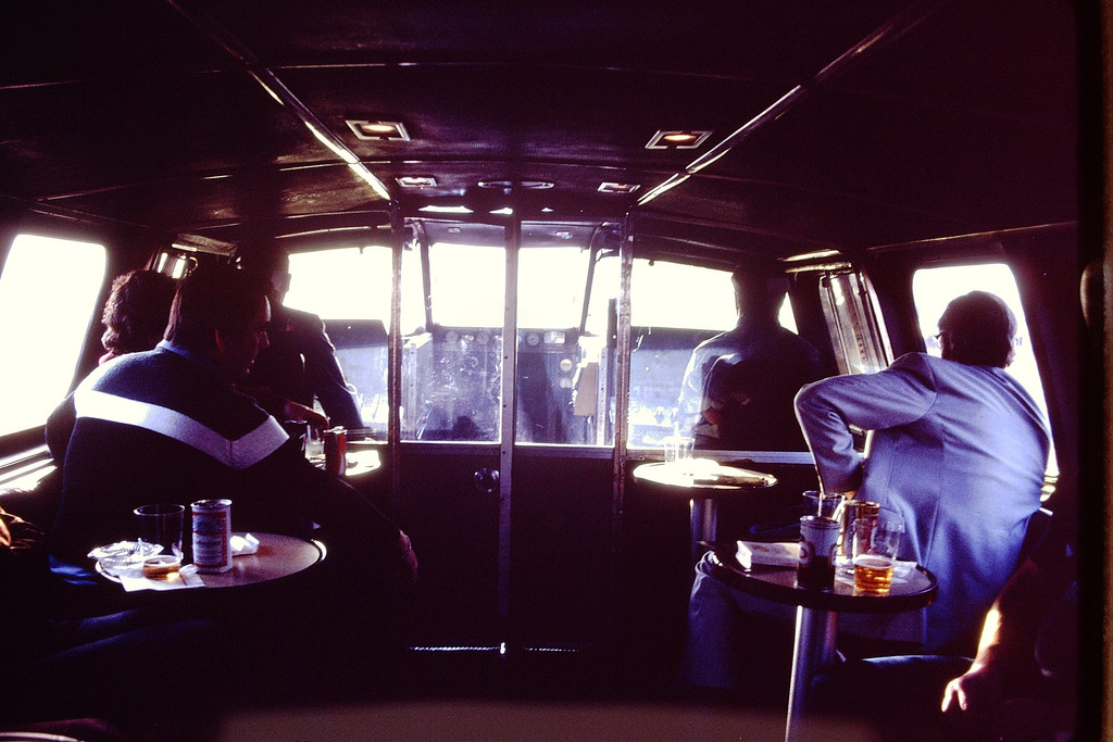 This photo taken inside the CN TurboTrain. Canada's only high speed train which obtained a speed of 226 km/h in a speed run in 1976. Evidence exists that the train during testing in 1968 -69 reached even higher speeds. John Stewart photographer donated to High Speed Rail Canada